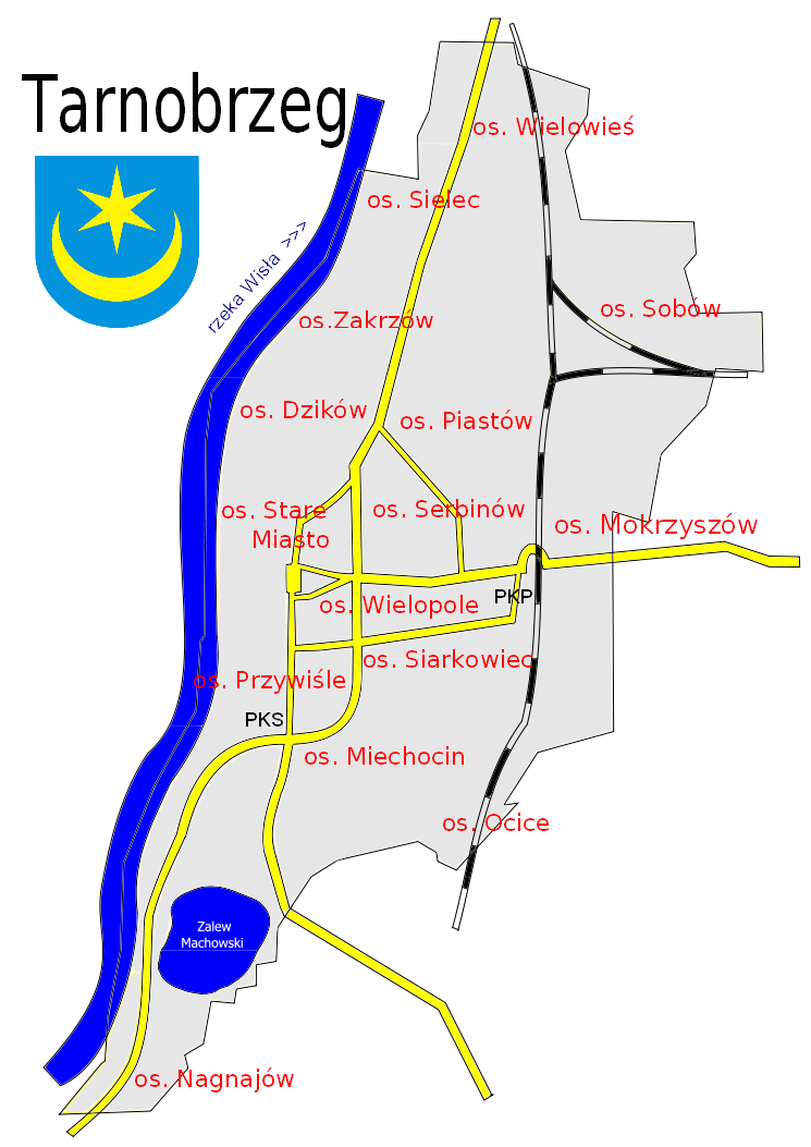 Map of town: Tarnobrzeg in Poland - river, roads, railroads and "osiedla" (plural), Osiedle - singular, 2010-01-24